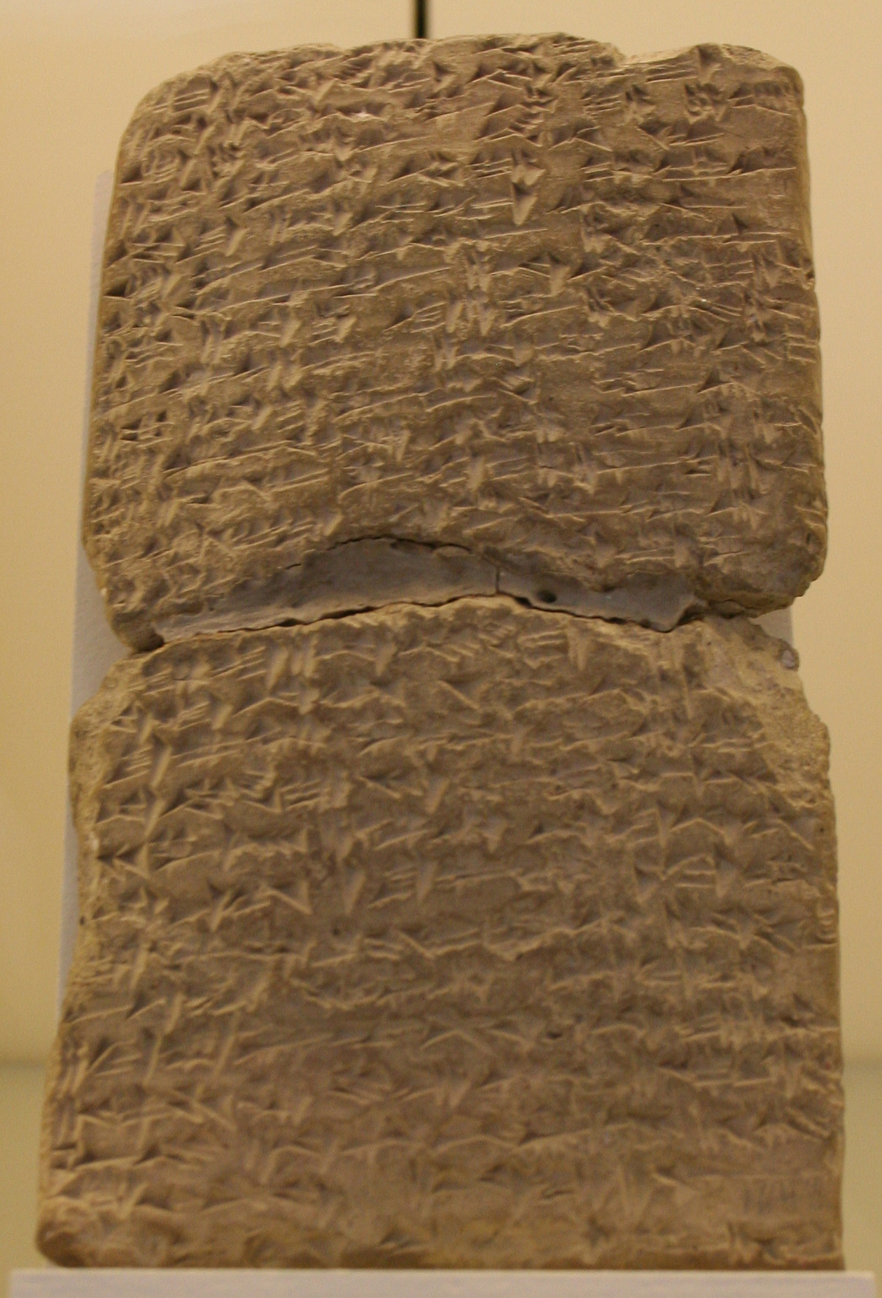 Vorderasiatisches Museum (Near East Museum), Berlin